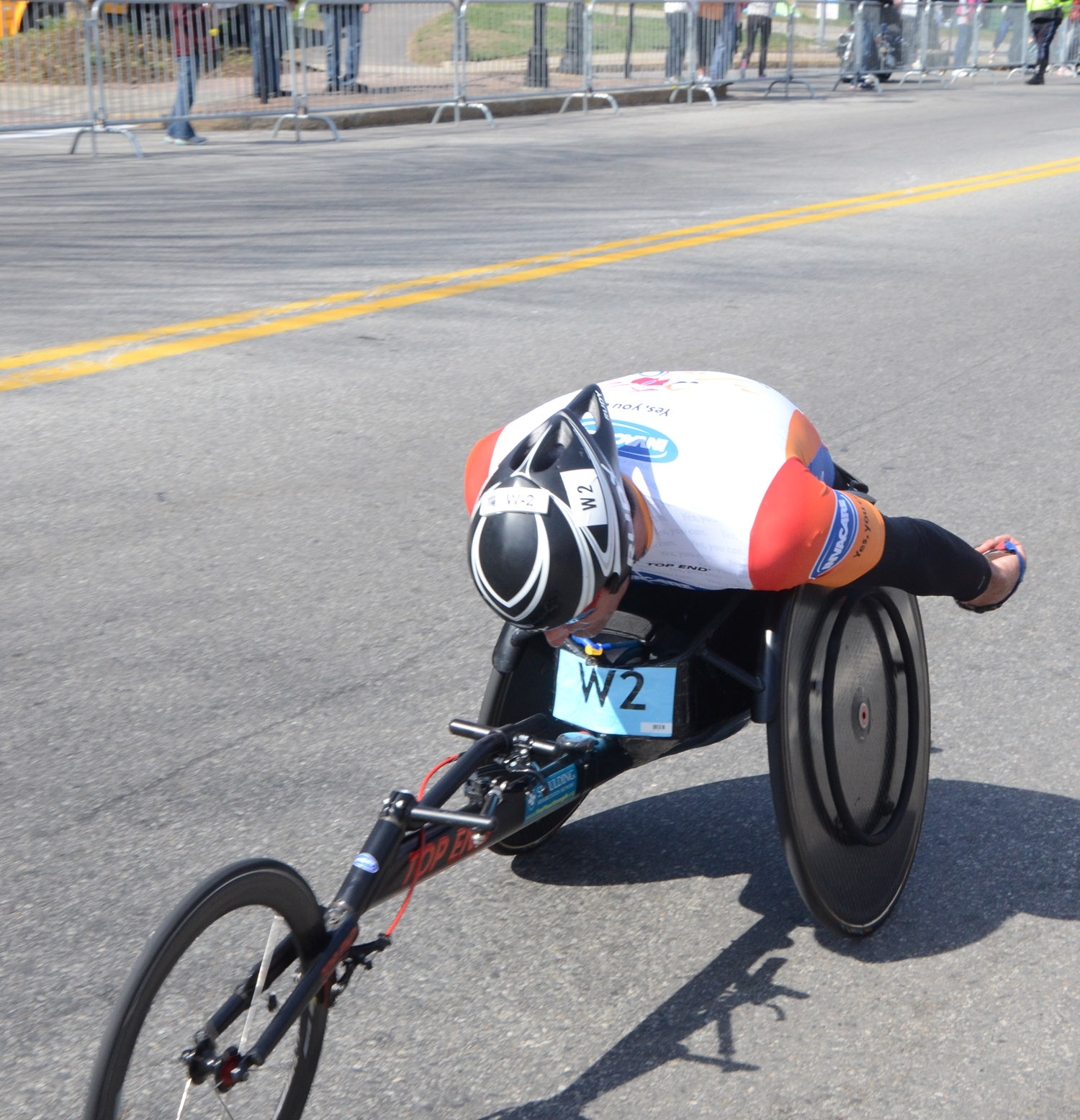 Ernst F. Van Dyk in 2014 Boston Marathon (which he won), near halfway point in Wellesley